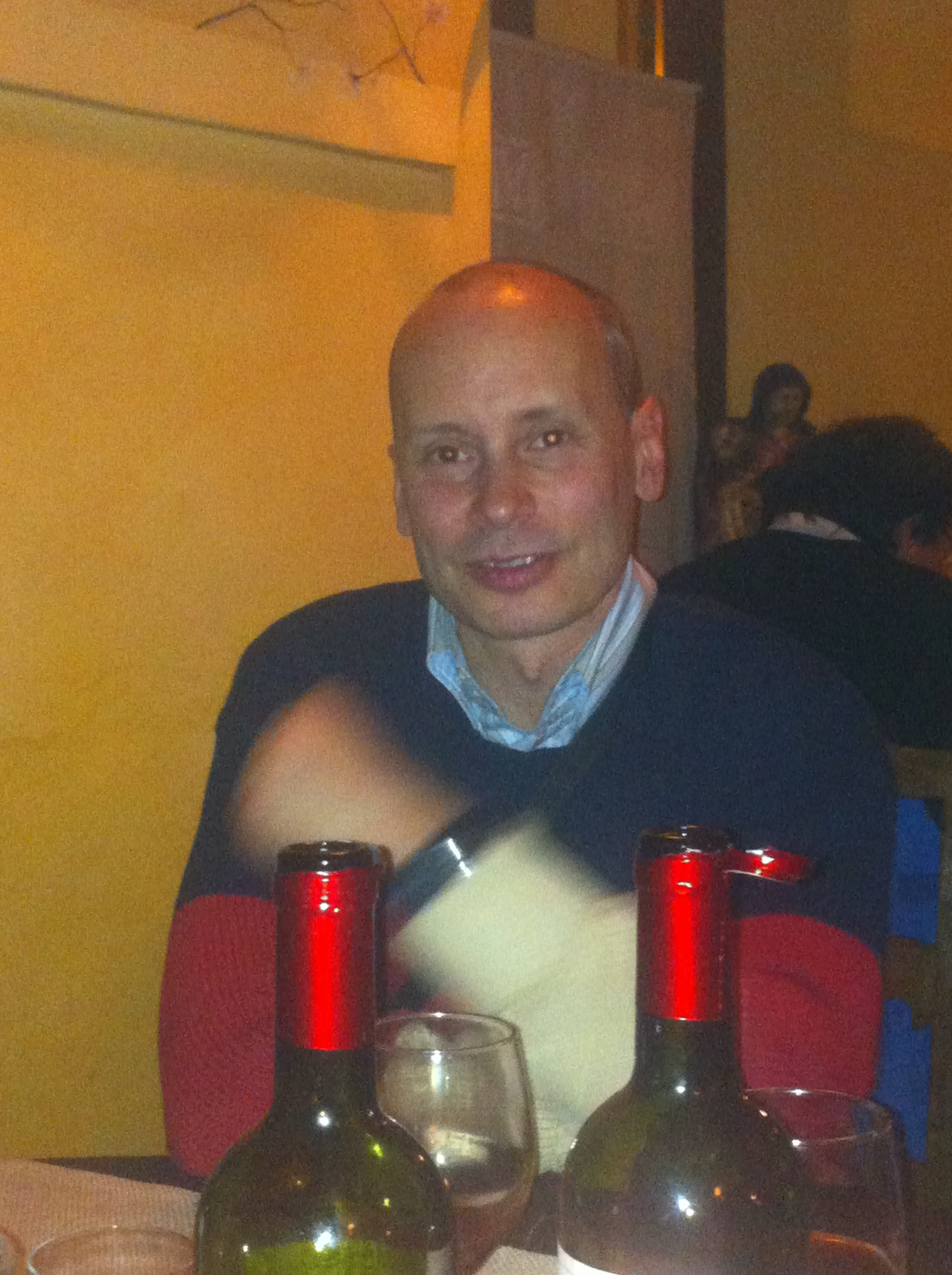 Director Patrick Ottoz photographed in Aosta